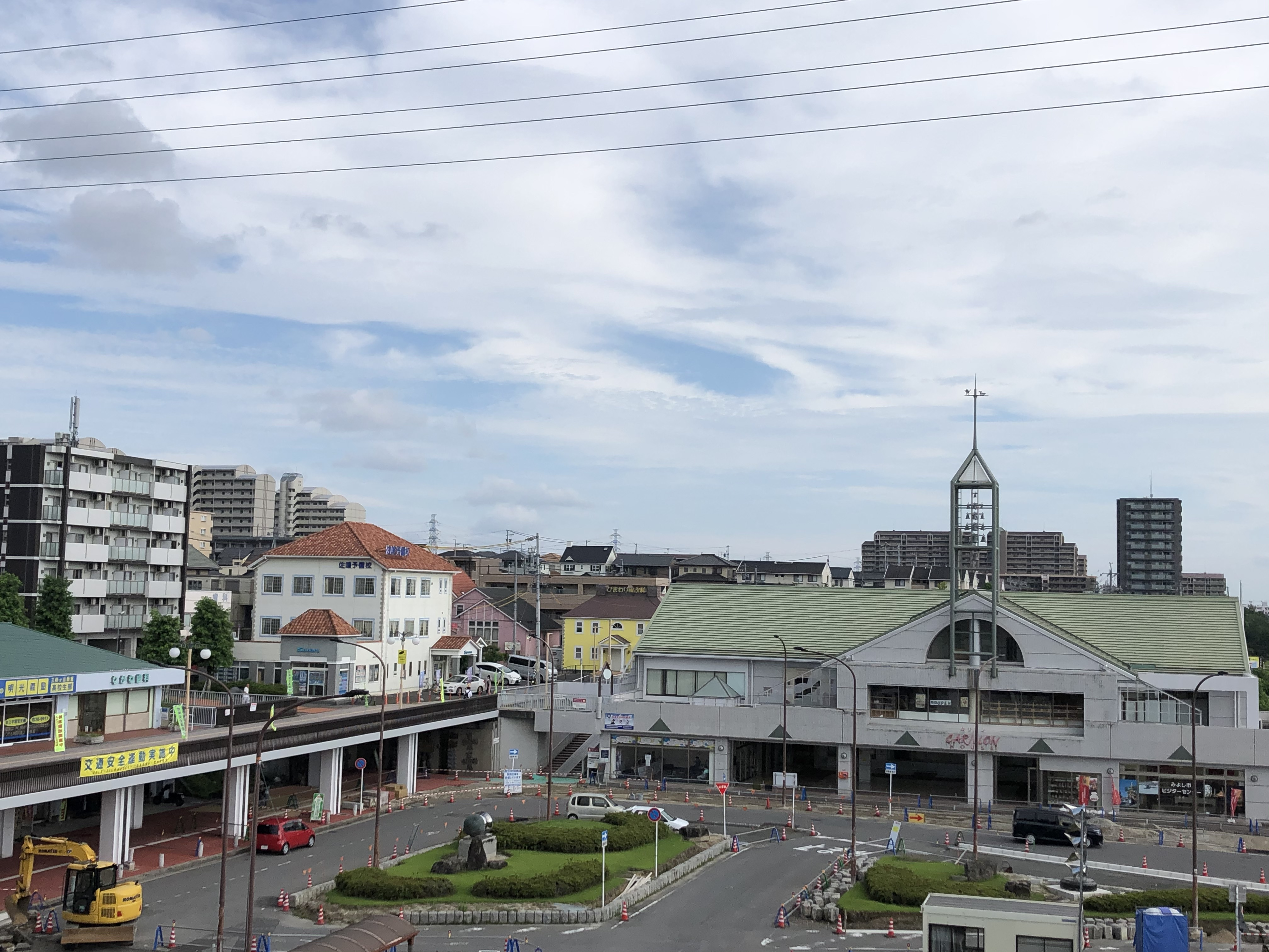 Miyoshigaoka Skyline01